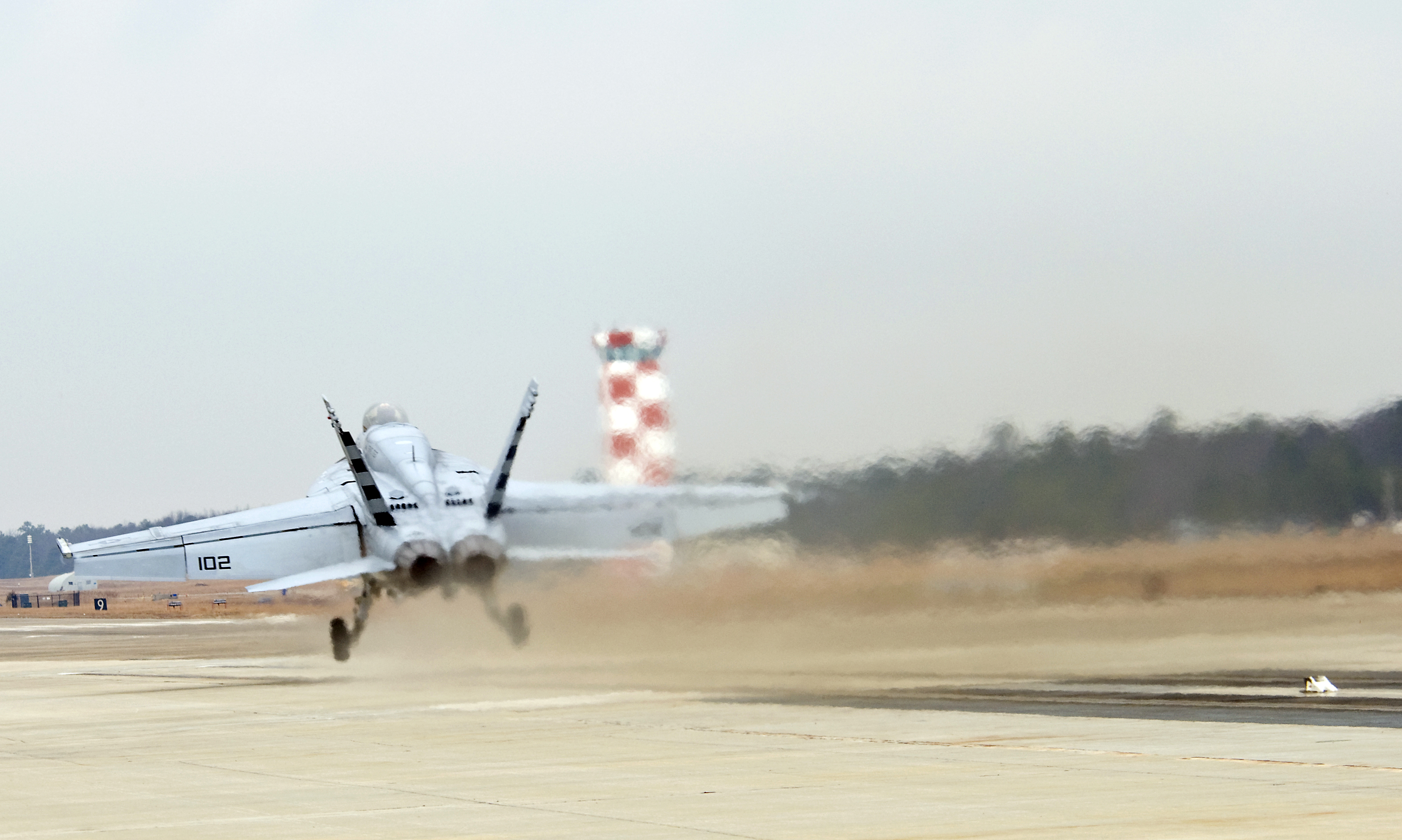 LAKEHURST, N.J. (Dec. 16, 2010) An F/A-18E Super Hornet is launched during a test of the Electromagnetic Aircraft Launch System (EMALS) at Naval Air Systems Command, Lakehurst, N.J. The Navy has used steam catapults for more than 50 years to launch aircraft from aircraft carriers. EMALS is a complete carrier-based launch system designed for Gerald R. Ford (CVN 78) and future Ford-class carriers. Newer, heavier and faster aircraft will result in launch energy requirements approaching the limits of the steam catapult, increasing maintenance on the system. The system’s technology allows for a smooth acceleration at both high and low speeds, increasing the carrier’s ability to launch aircraft in support of the warfighter. EMALS will provide the capability for launching all current and future carrier air wing platforms from lightweight unmanned aerial vehicles to heavy strike fighters. The first ship components are on schedule to be delivered to CVN 78 in 2011. (U.S. Navy photo/Released)